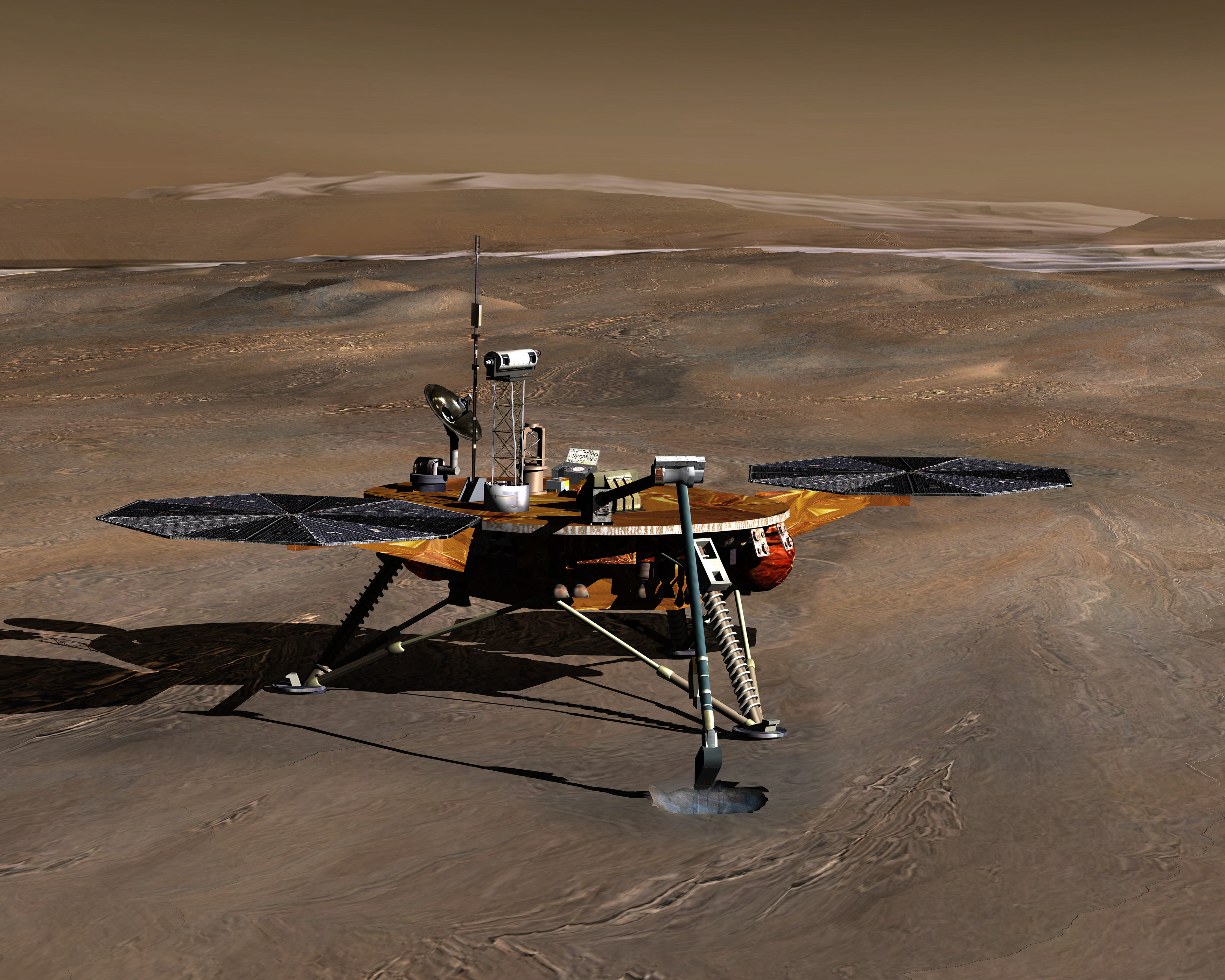 Artist's concept of the Phoenix Mars lander.